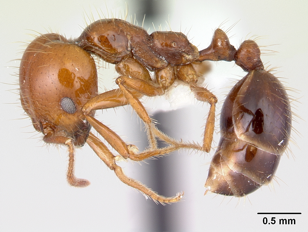 Profile view of ant Solenopsis megergates specimen casent0178141.